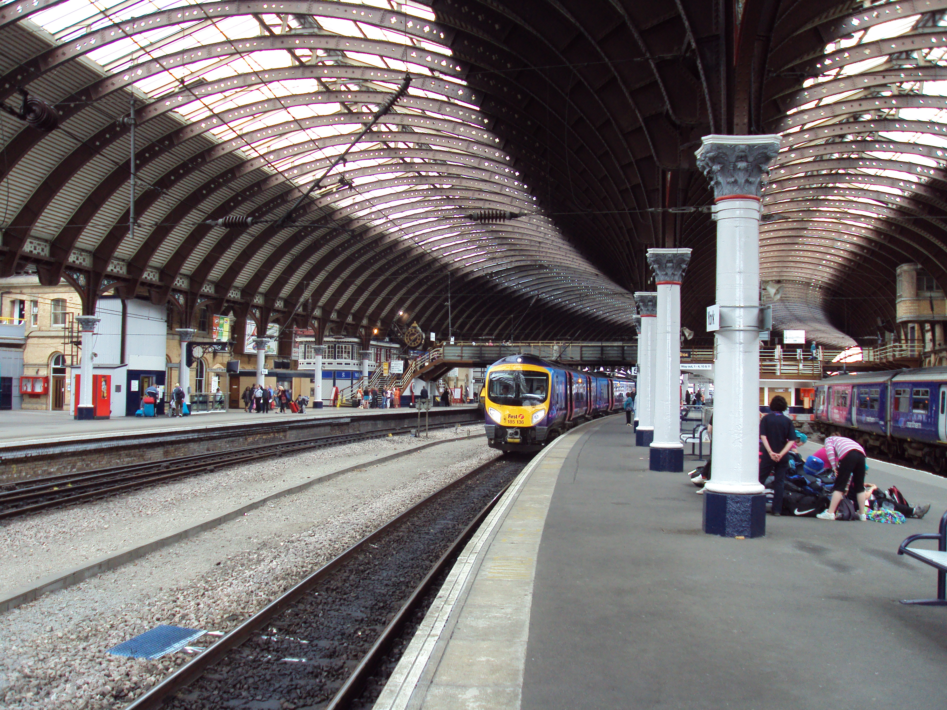 183136 at York railway station.